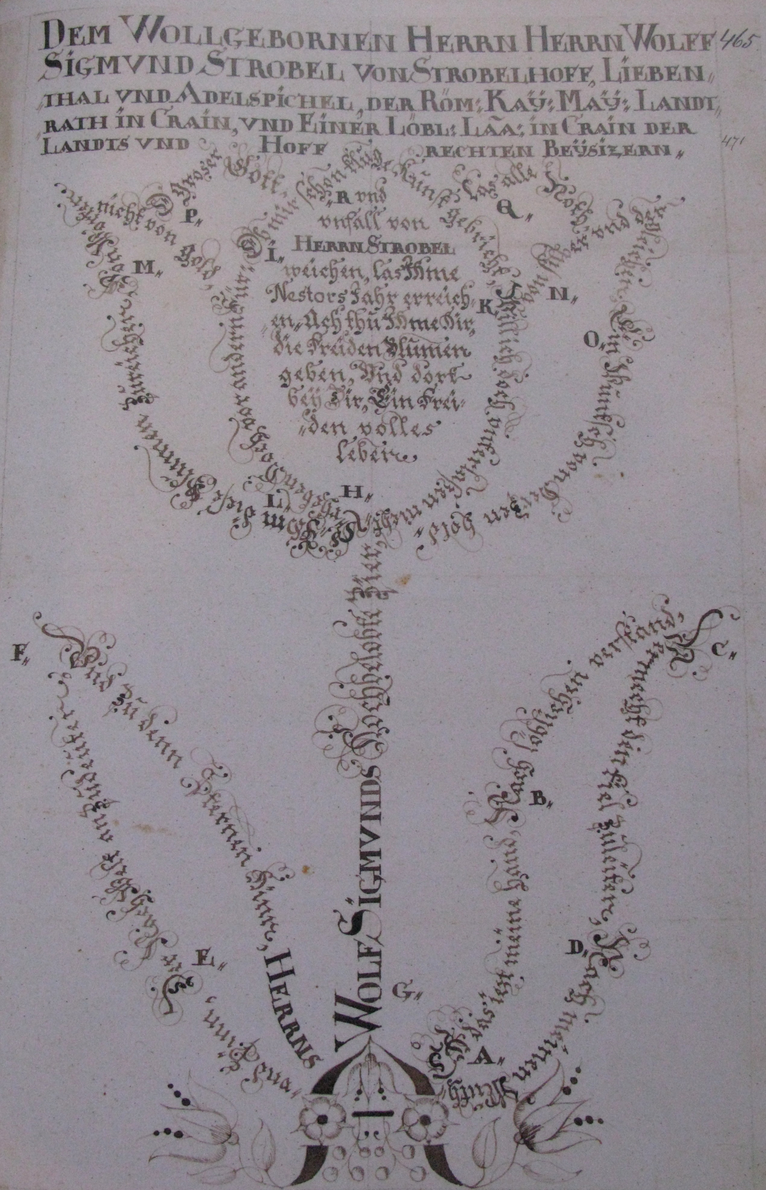 Dedication